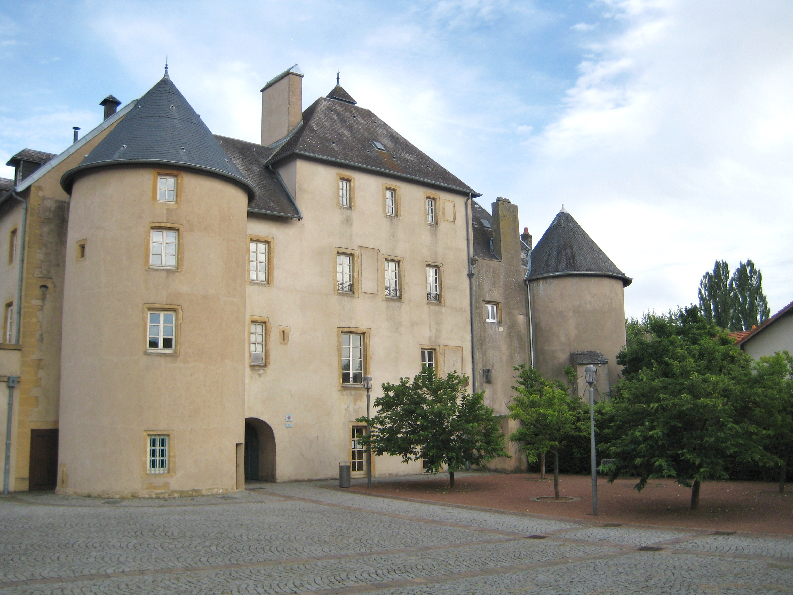 Description chateau fabert Moulins Metz Date26 August 2011Sourcemon appareil photoAuthorAimelaimePermission(Reusing this file) chateau fabert Moulins Metz